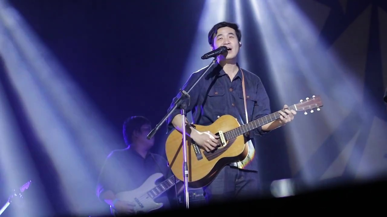 Apiwat Eurthavornsuk, during a performance of "Falling Slowly" at the BBA Charity Concert